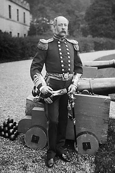 Henry Paget, 4th Marquis of Anglesey (1835–98)